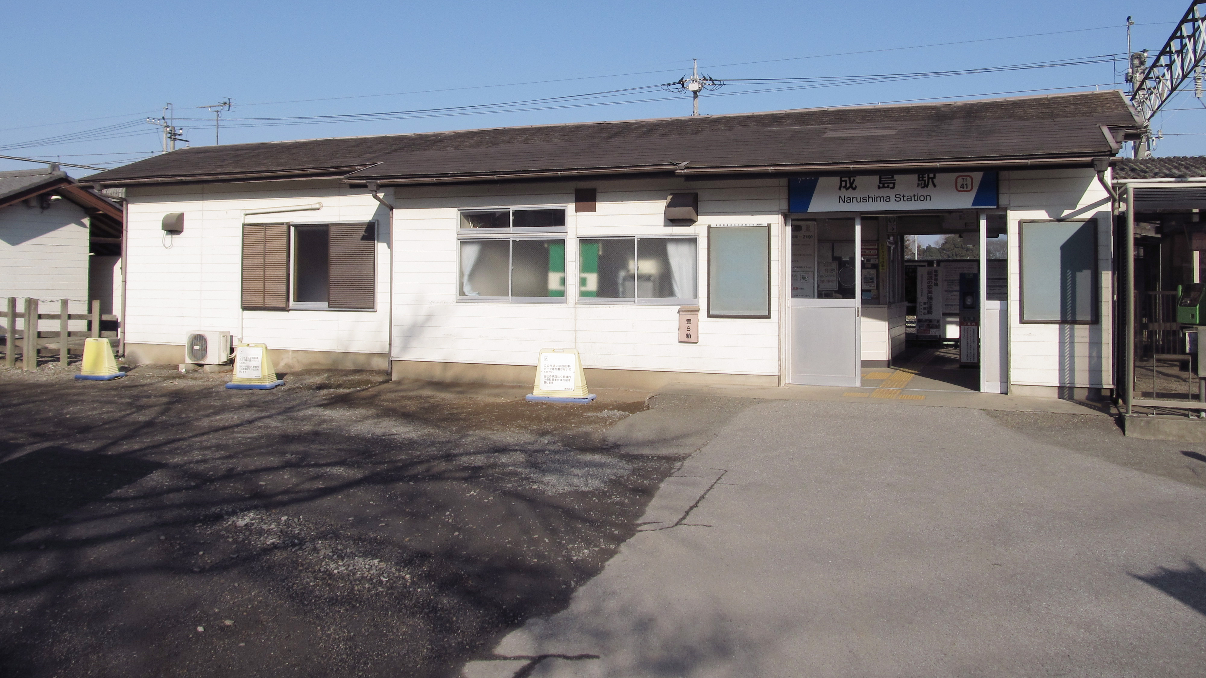 The building of Narushima Station on the Tobu Railway Koizumi Line in Tatebayashi city, Gumma prefecture, Japan